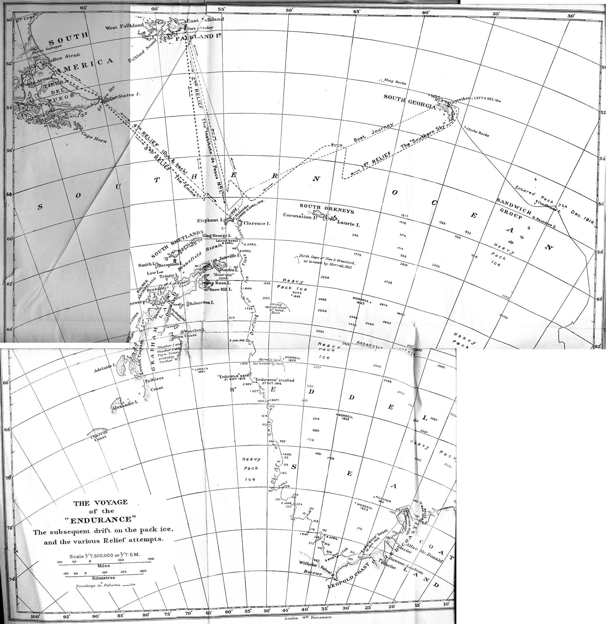 This map was first published in the United States in Ernest Shackleton's book South in 1919.